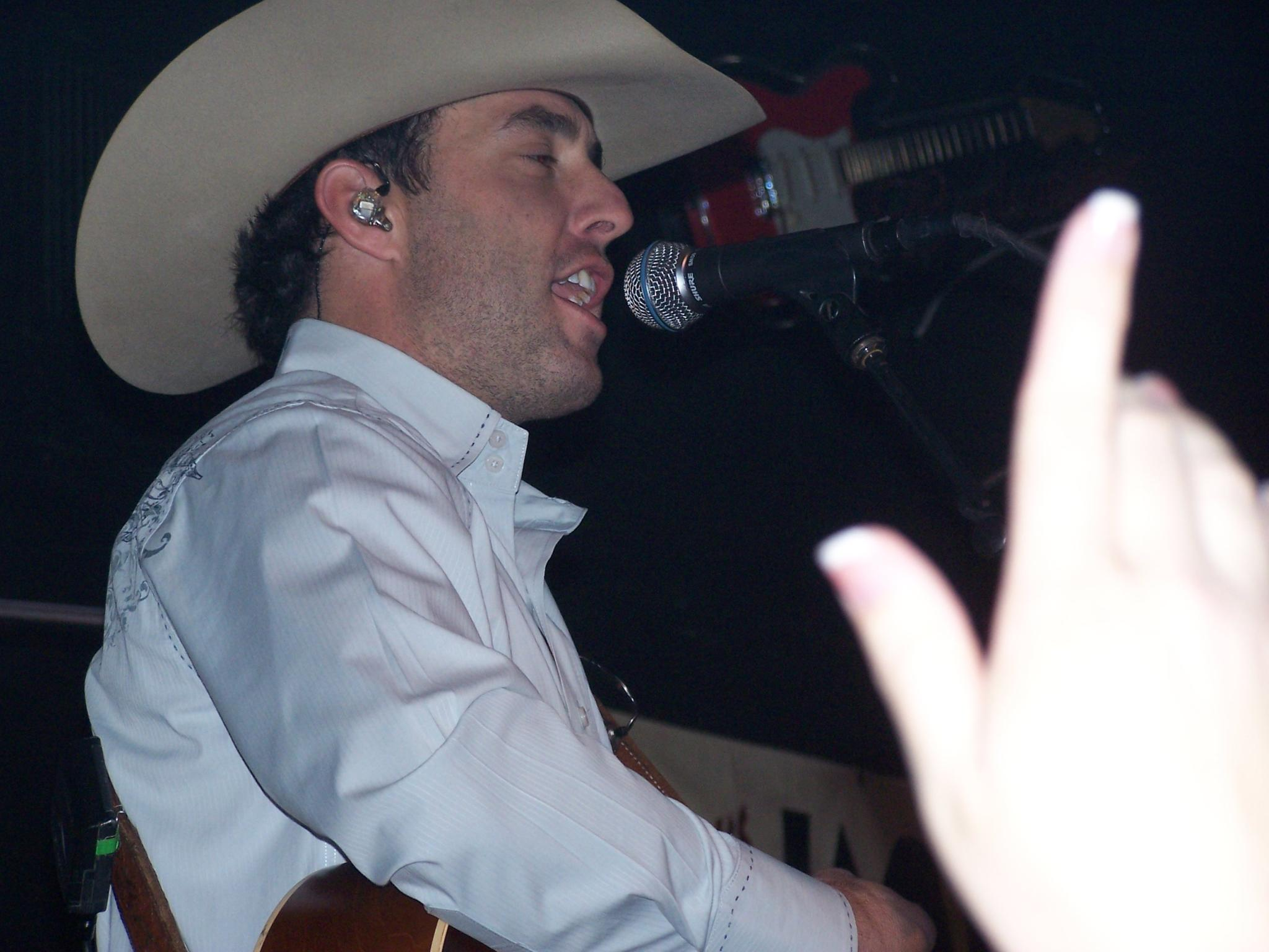 Aaron Watson Crosswire Paris Texas 12-10-11